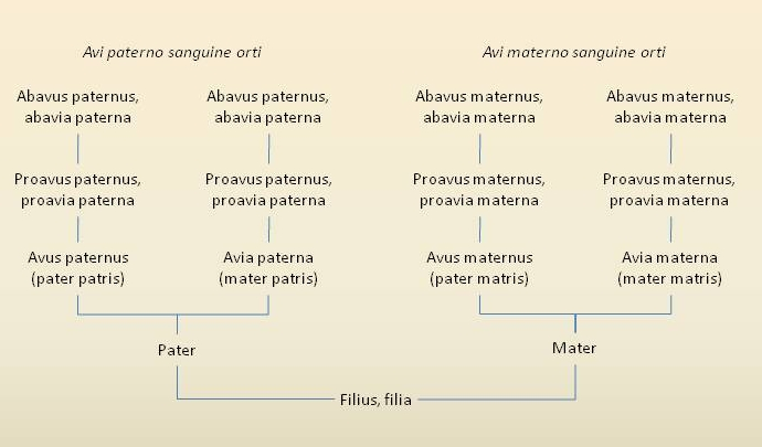 Genealogical chart in Latin